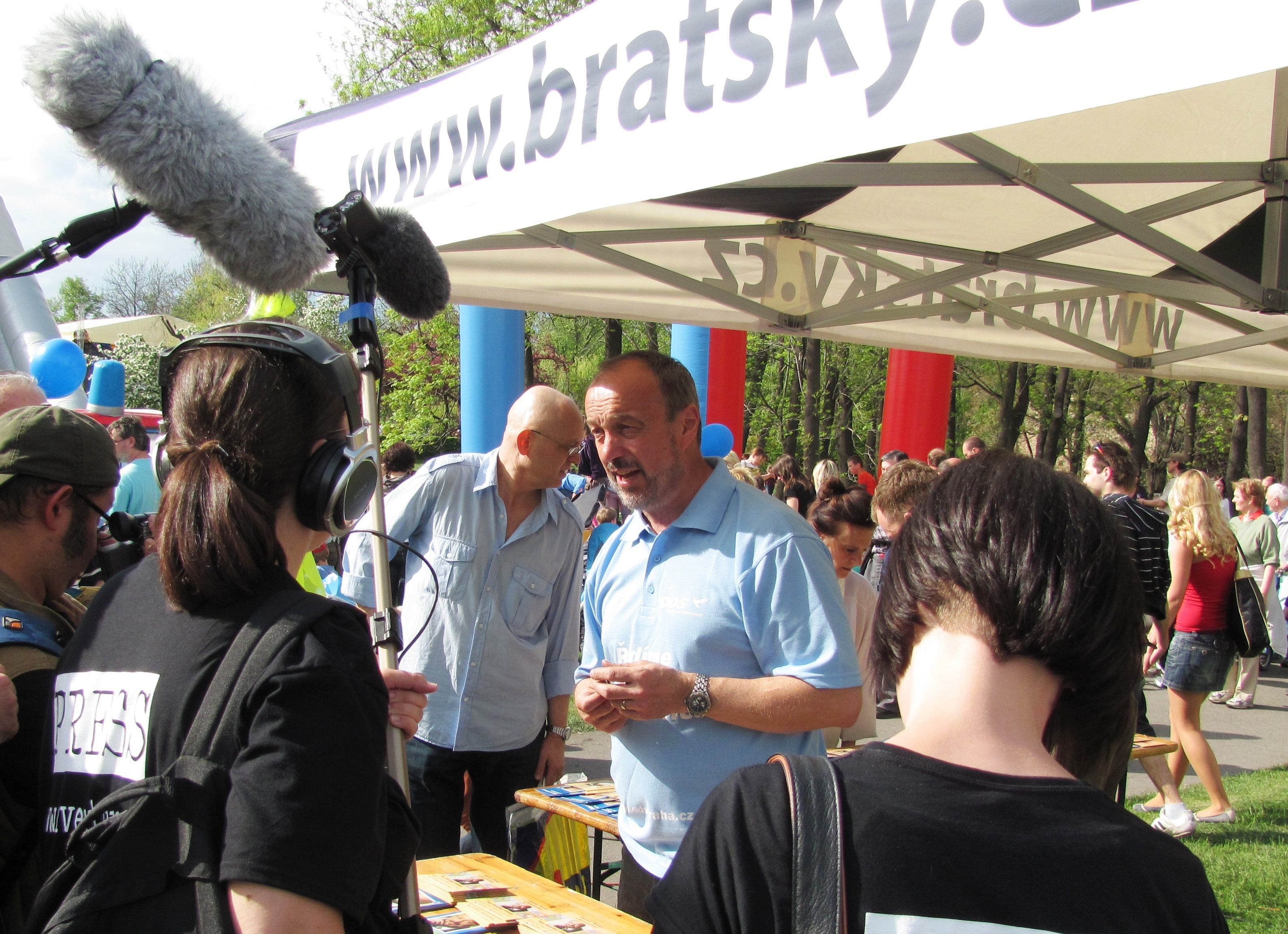 Petr Bratský, Czech Senator (ODS)